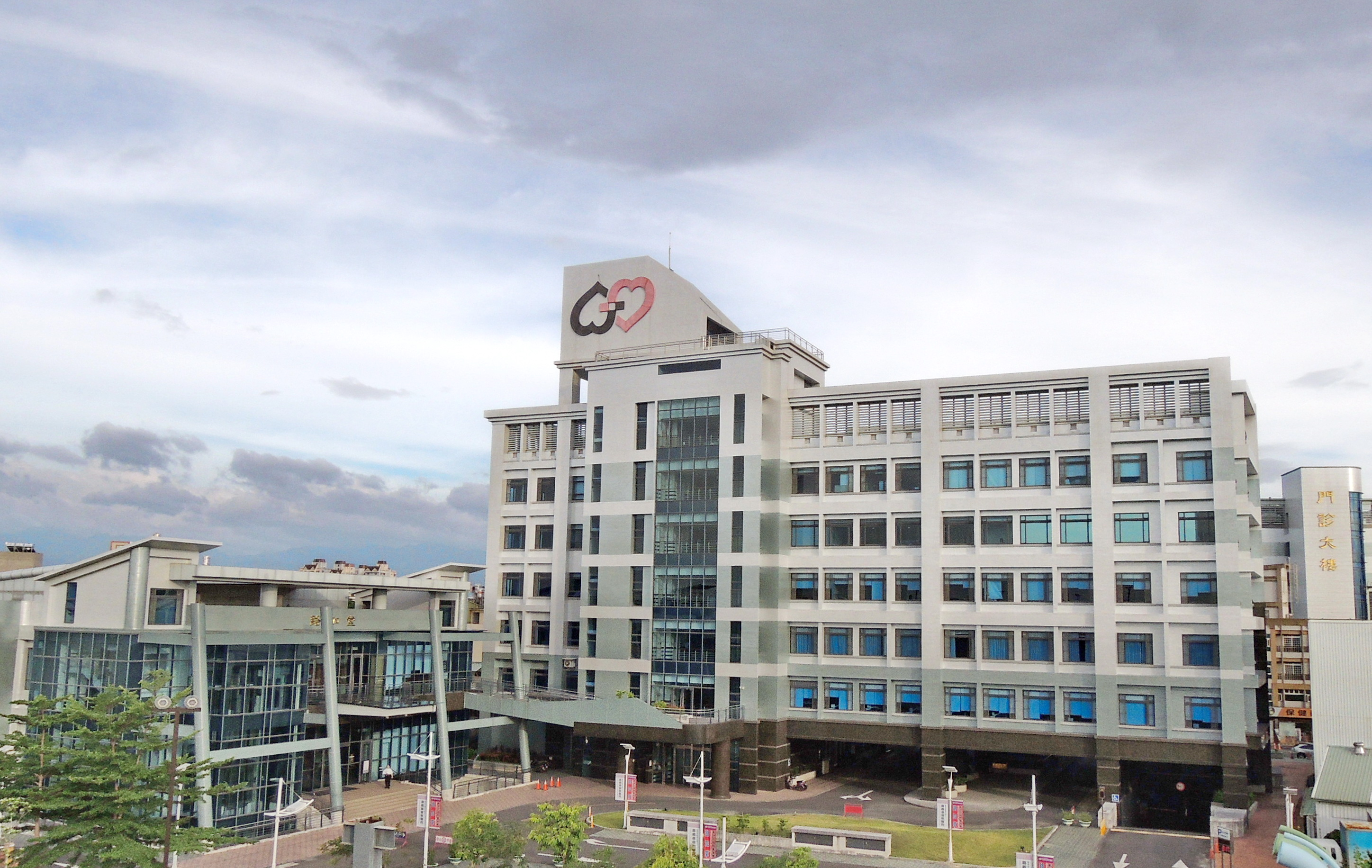 Luke Auditorium (left) and Baojian Building (right), Ditmanson Medical Foundation Chia-Yi Christian Hospital, Chiayi City, Taiwan.